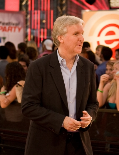 James Cameron at the eTalk Festival Party, during the Toronto International Film Festival.